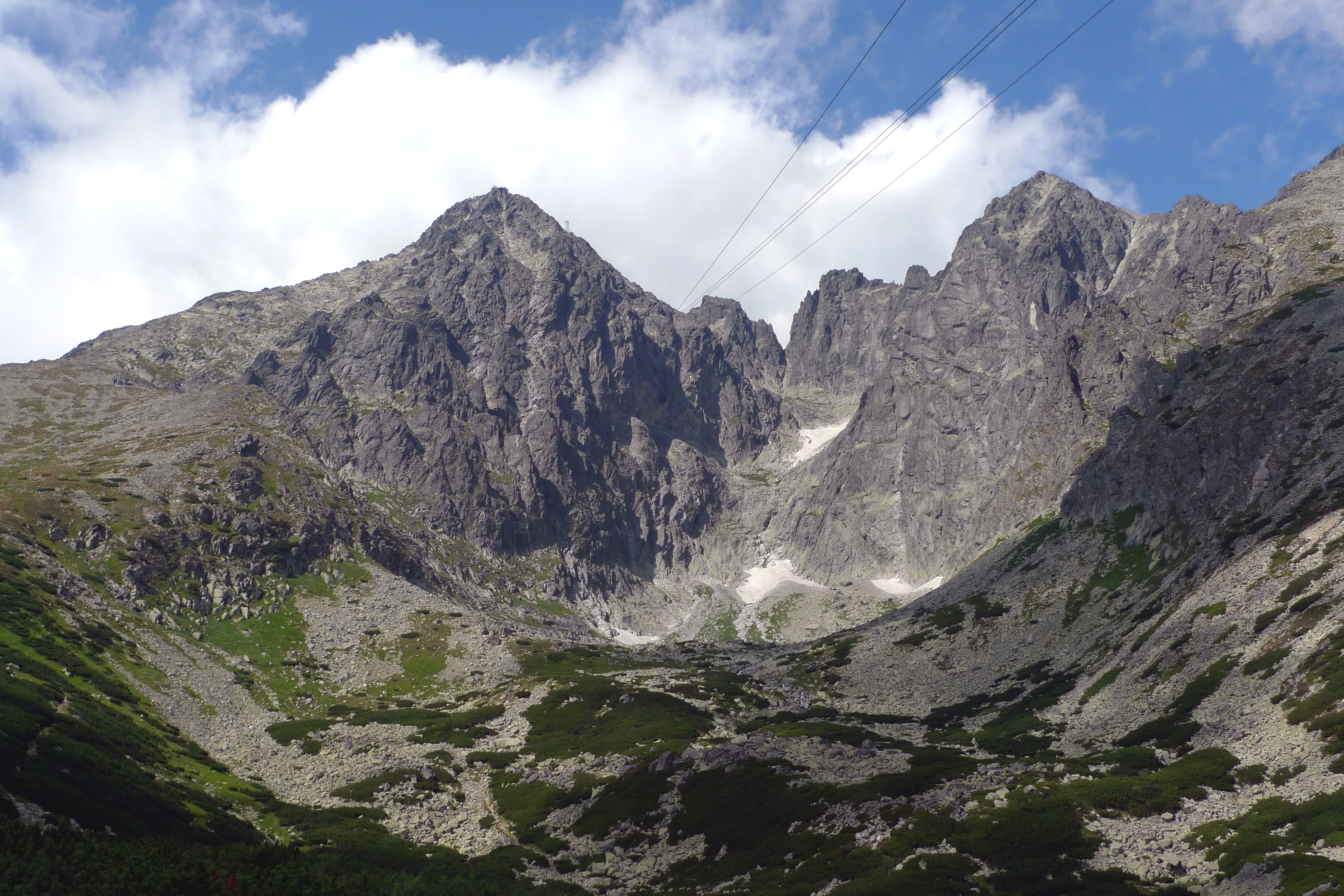 View at Lomnický štít (on the left side) from Skalnaté pleso